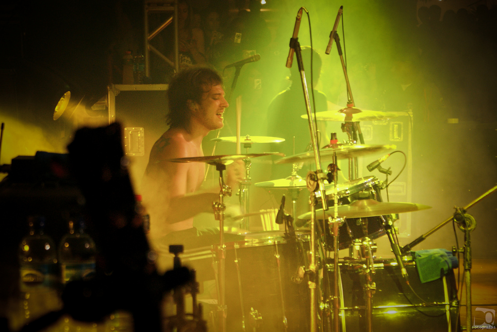 The Brazilian rock banda NX Zero, performing @ João Pessoa City. Person on the photo: Daniel Weksler, the drummer.